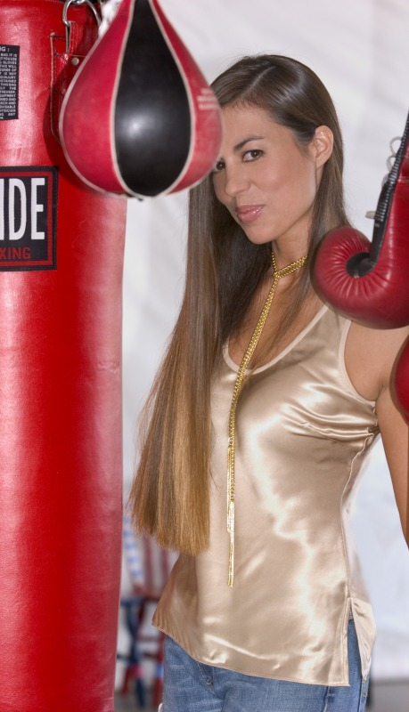 Photo of St. Louis photographer Suzy Gorman